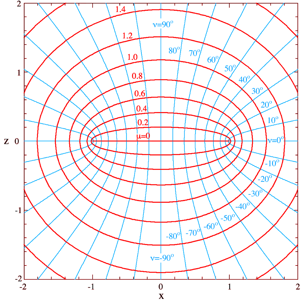 Oblate Spheroidal coordinates μ and ν. The lines of equal values of μ and ν are shown on the x-z plane, i.e. for φ=0. The surfaces of constant μ and ν are obtained by rotating about the z axis, so that the diagram is valid for any plane containing the z axis, i.e. for any φ.